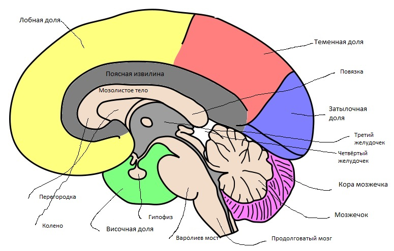 human brain, medial view, with russian names given to large brain structures